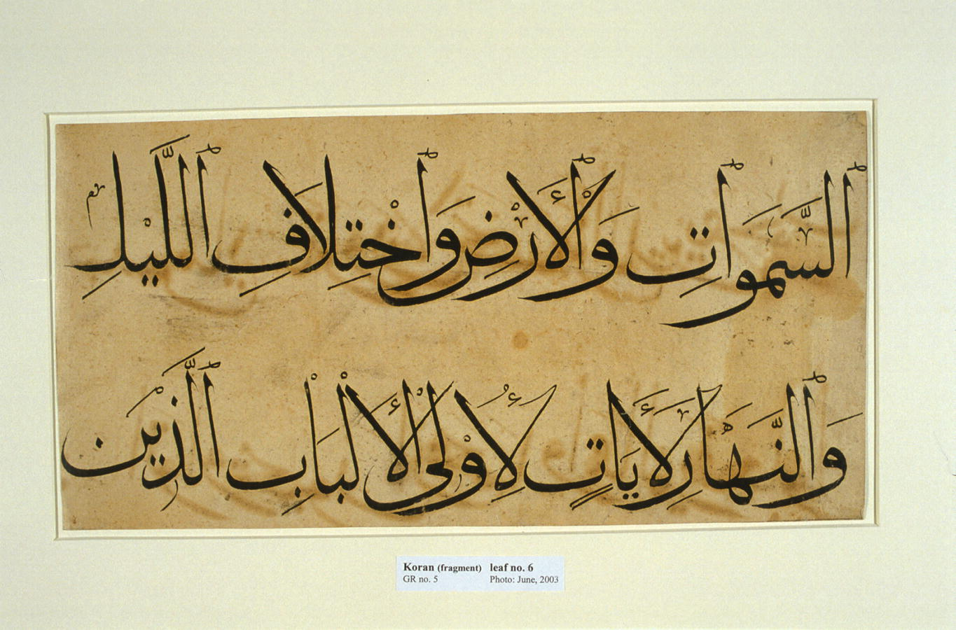 Parts of verses 190-191 of the 3rd chapter of the Qur'an entitled Surat Al 'Imran (The Family of 'Imran). The text is executed in a crisp and fully vocalized muhaqqaq script on a light beige paper, and may have been executed in Persia or Central Asia during the early 15th century.